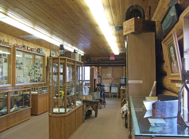 Chester Museum in the Chester Library. Summary Chester Museum in the Chester Library.